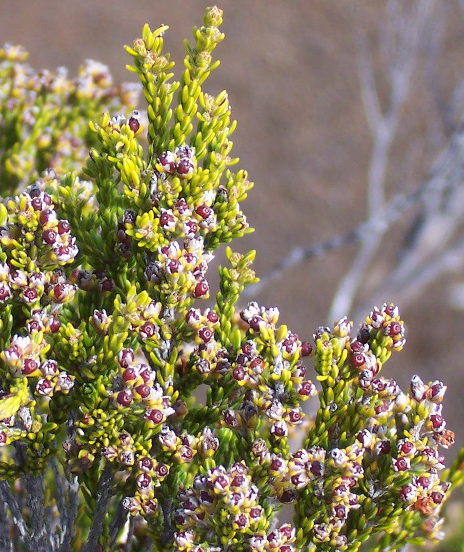 Erica reunionensis (fruit) fr: branle vert Photo : B.navez - 15 APR 2006 - Réunion island